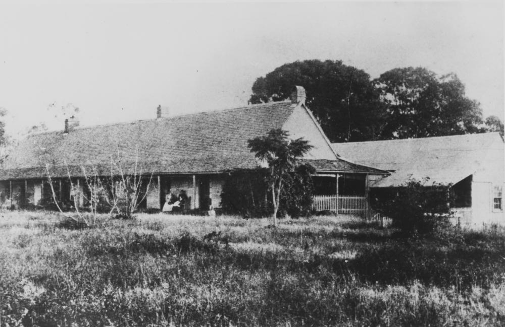 Wolston House in the suburb of Wacol an early stone farmhouse, 1890